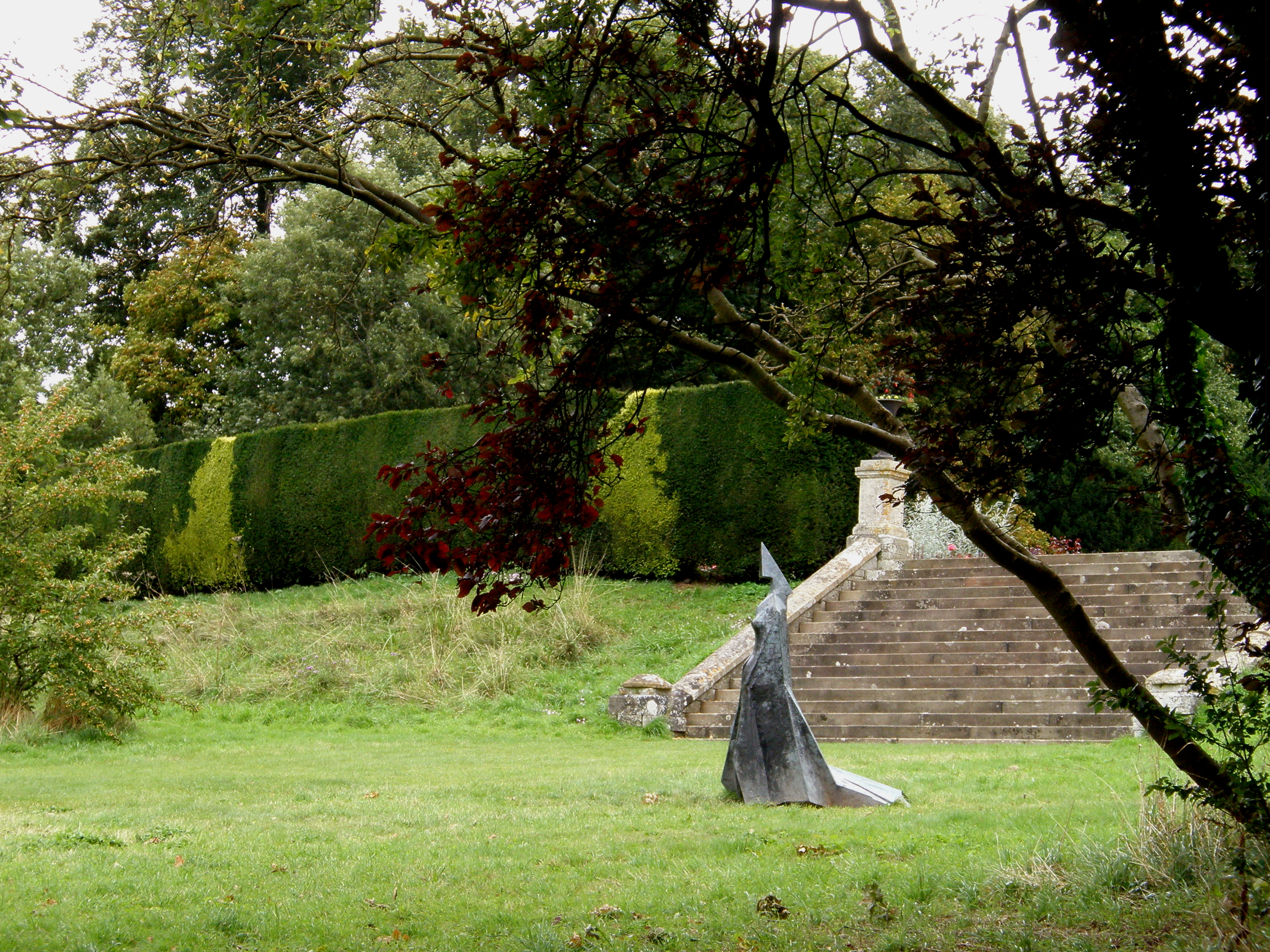 Ragley Hall is the family home of the 9th Marquess and Marchioness of Hertford and the seat of the Conway-Seymour family. The hall was designed in 1680 by Robert Hooke, friend of Sir Christopher Wren. It was completed in the 18th Century by James Gibbs who designed the Great Hall, the exceptional plasterwork in the main reception rooms and the impressive stable block in the 1750s and James Wyatt who added the central portico in 1780. The hall stands in four hundred acres of picturesque parkland landscaped by Lancelot 'Capability' Brown in the 18th Century, and twenty seven acres of formal gardens laid out by Robert Marnock in 1873. The park and gardens provide a spectacular and unique setting for the Jerwood Sculpture collection.